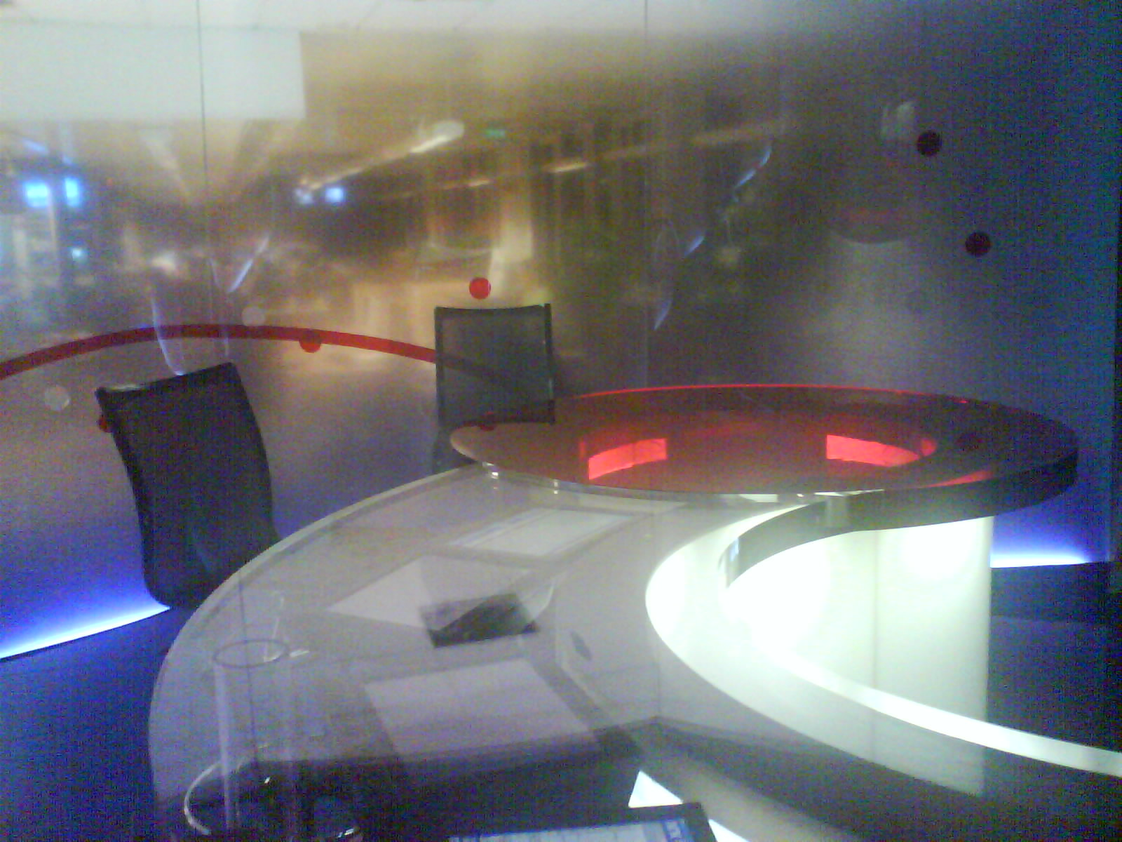 Studio 7, Marienlyst